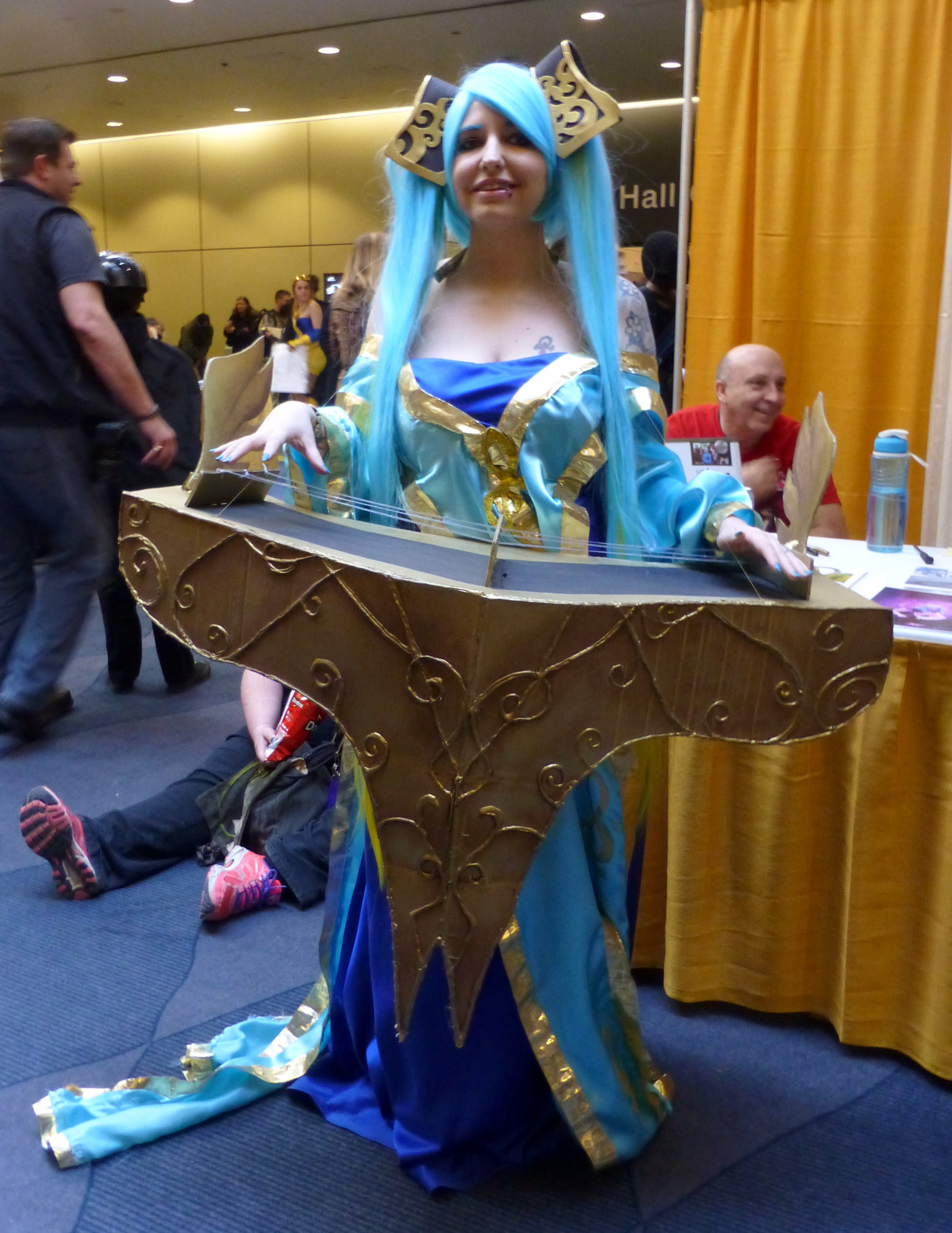 Candy Cosplay as Sona from League of Legends Toronto Comicon 2015